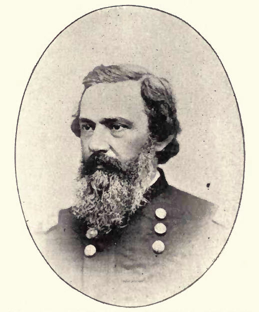 John E. Smith, Companions of the Military Order of the Loyal Legion of the United States - An Album Containing Portraits of Members of the Military Order of the Loyal Legion of the United States, L. R. Hamersly Co., New York, 1901, page 250.